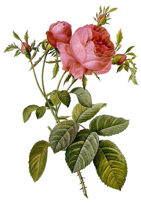 Rosa centifolia foliacea, a painted engraving of a rose by Pierre-Joseph Redouté (1759–1840).